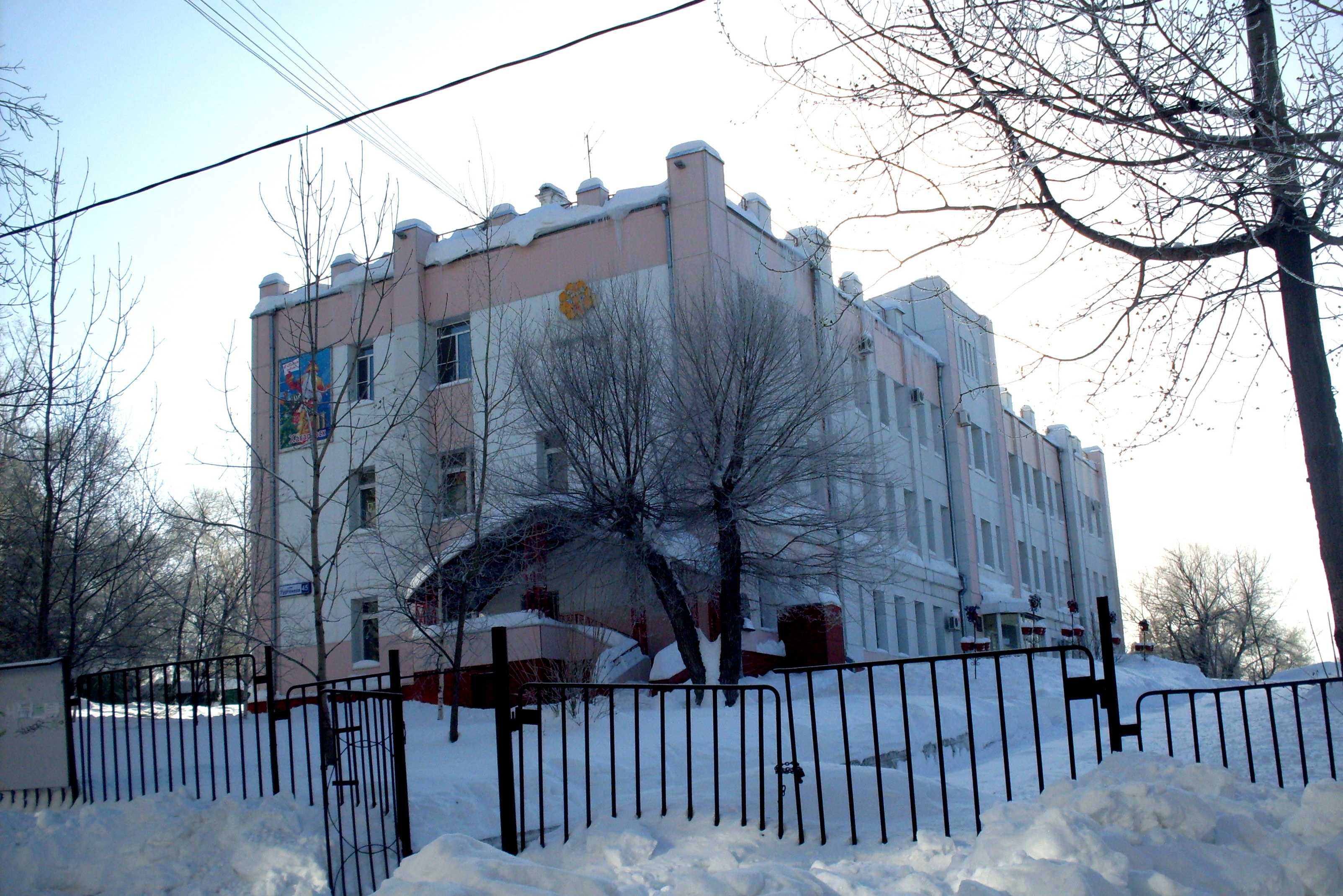 Children"s Hospital named V.M.Istomin in Khabarovsk